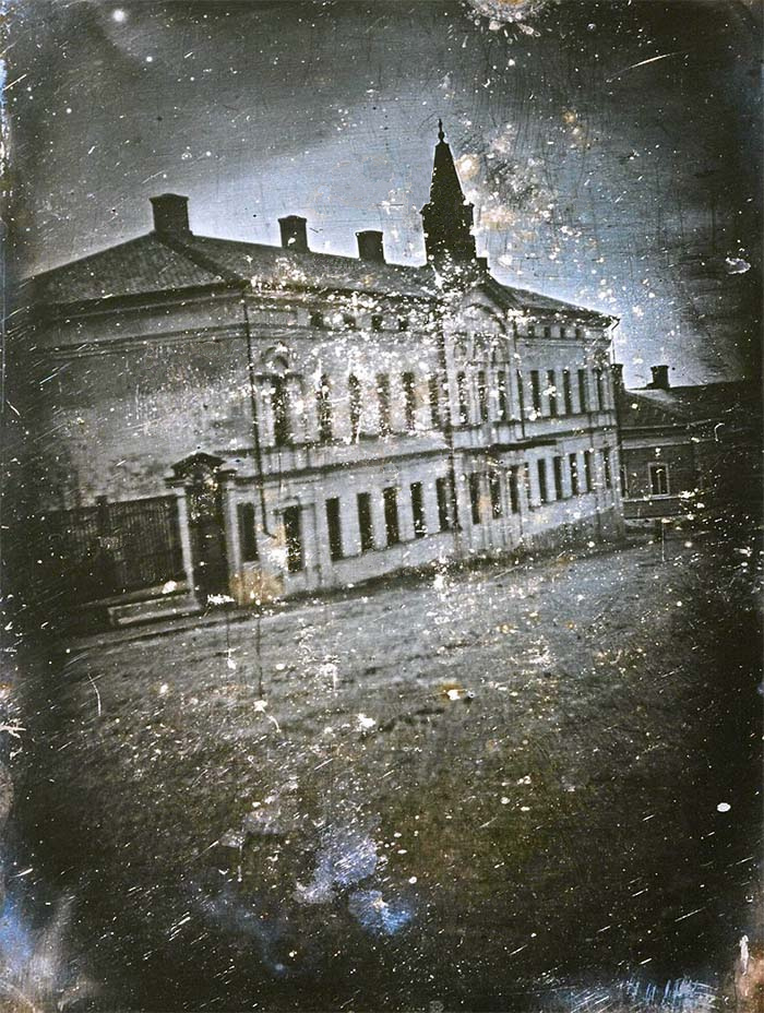 The first daguerreotype photograph taken in Finland was a daguerreotype taken by Henrik Cajander on 3rd November 1842 of Nobel House at Uudenmaankatu 8. The house, with Turku Cathedral in the background, had recently been completed and Cajander lived on the same street. It was demolished in the 1960s.